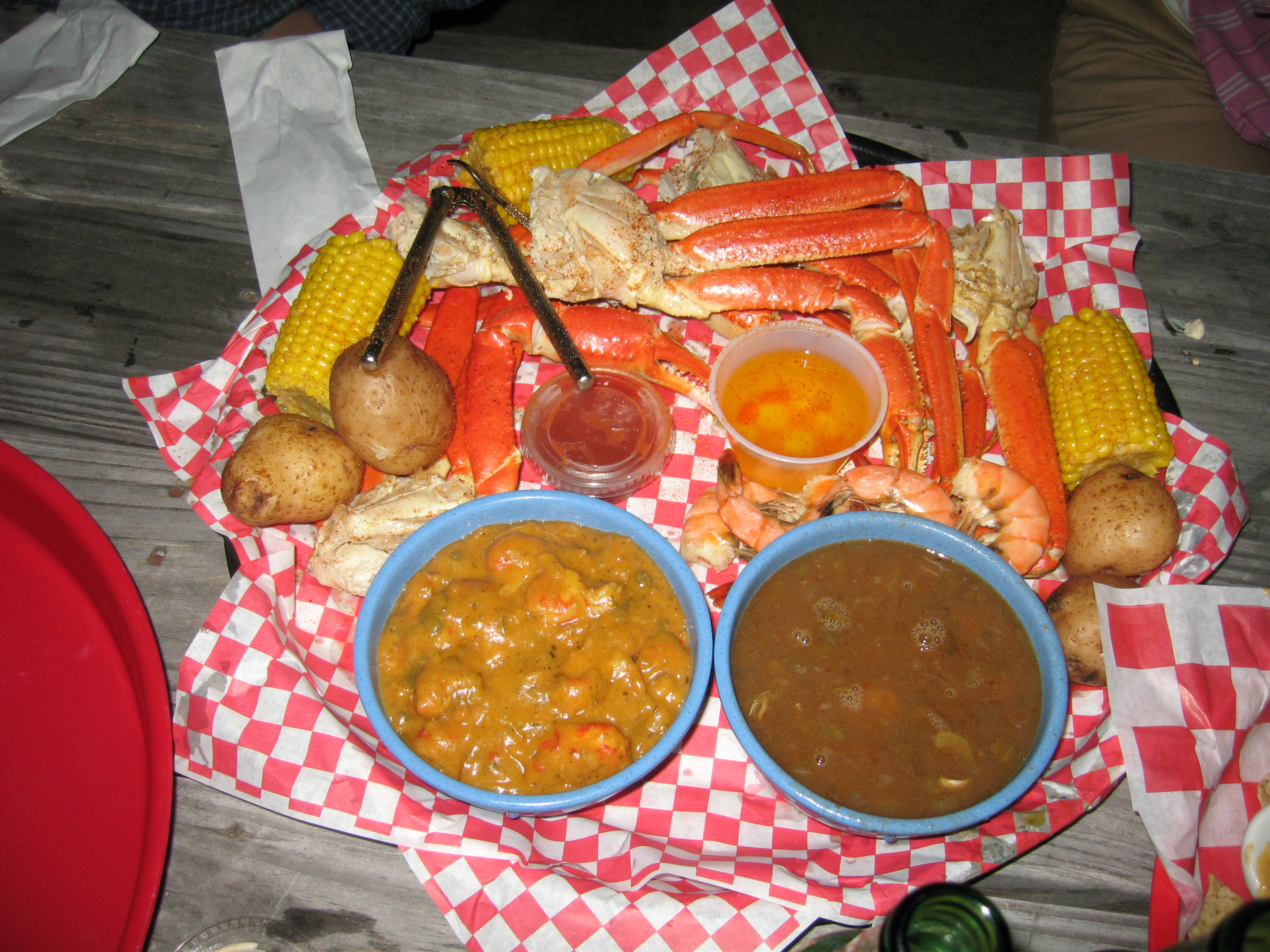 Cajun Platter; Crawfish Etouffee, Shrimp Gumbo, Crab Legs, Shrimp, Potato, Corn